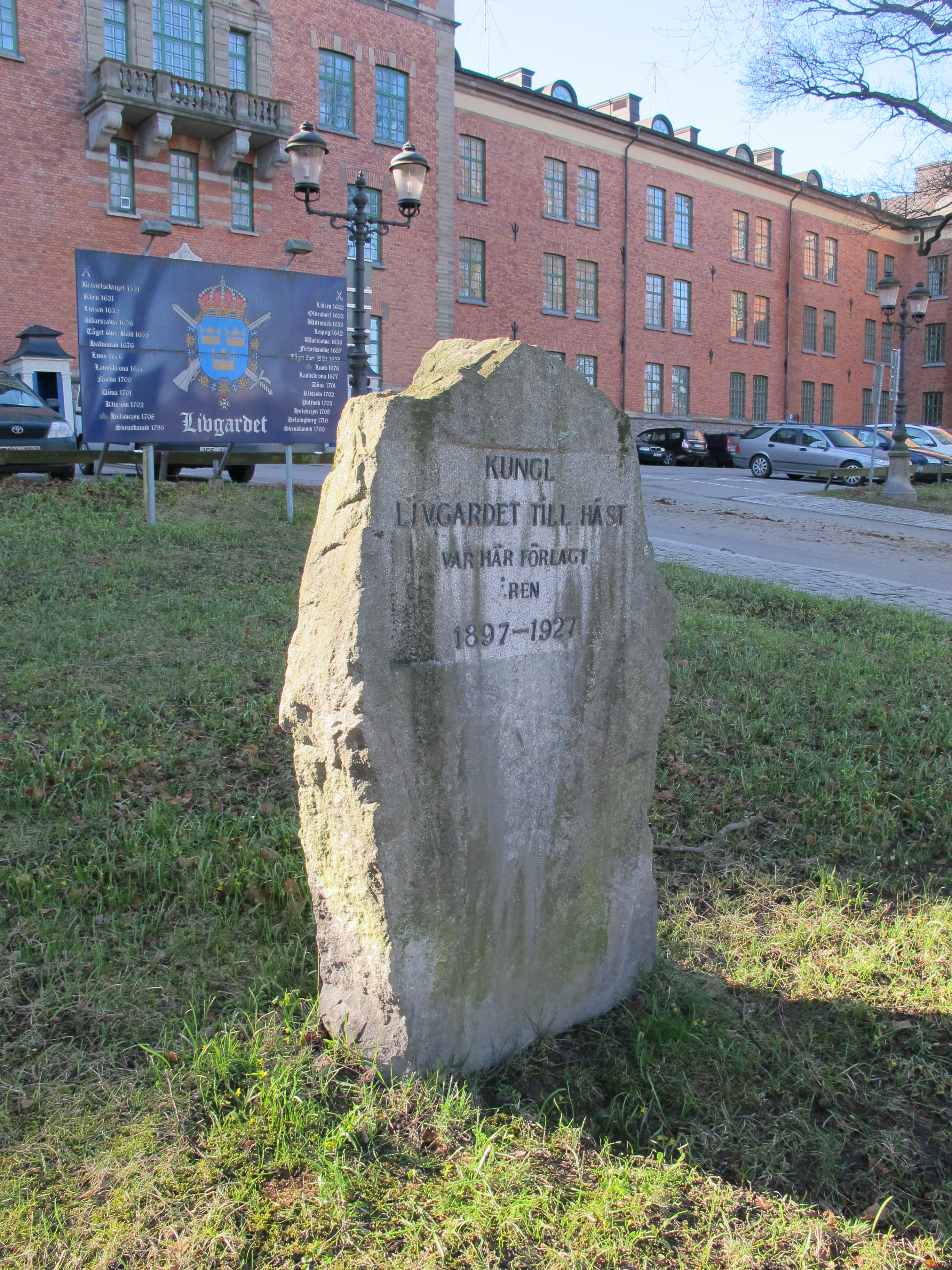 Monument of the mounted Lifeguard